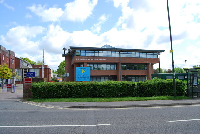 The College of Richard Collyer, Horsham (3) Founded in 1502 by Richard Collier (different spelling) as a boy's grammar school. It is now a sixth form college.